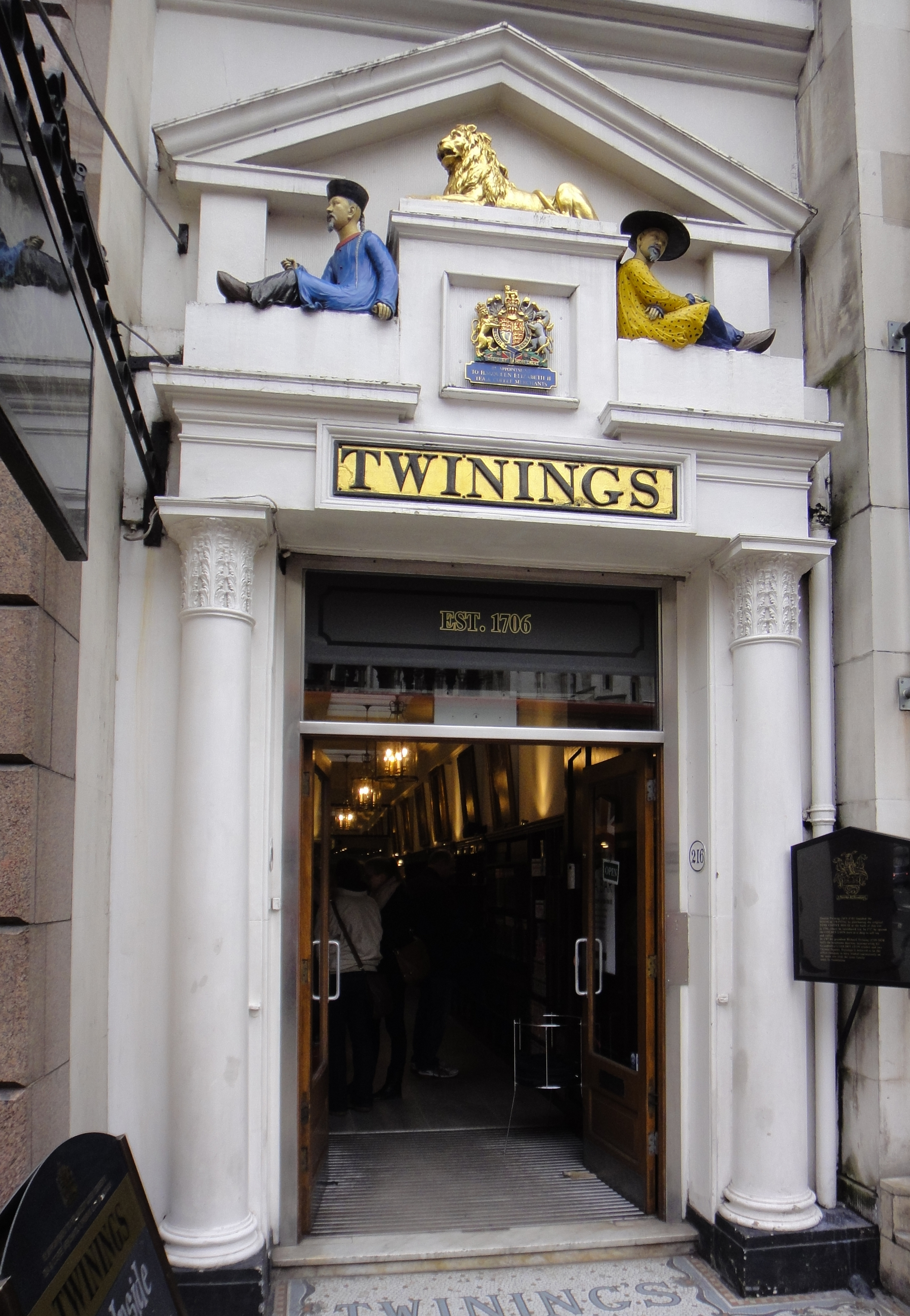 Entrance to Twinings Heritage Shop